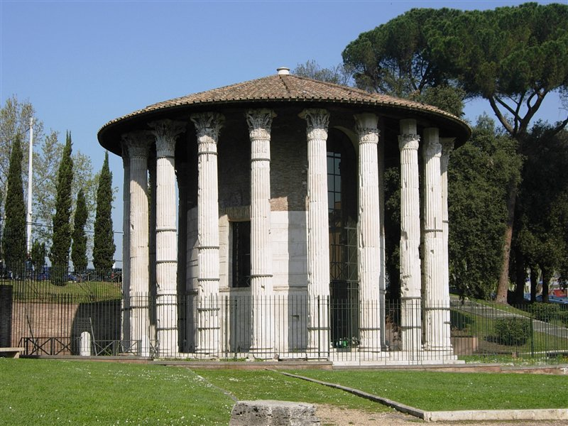 Rome Aventine Trastevere